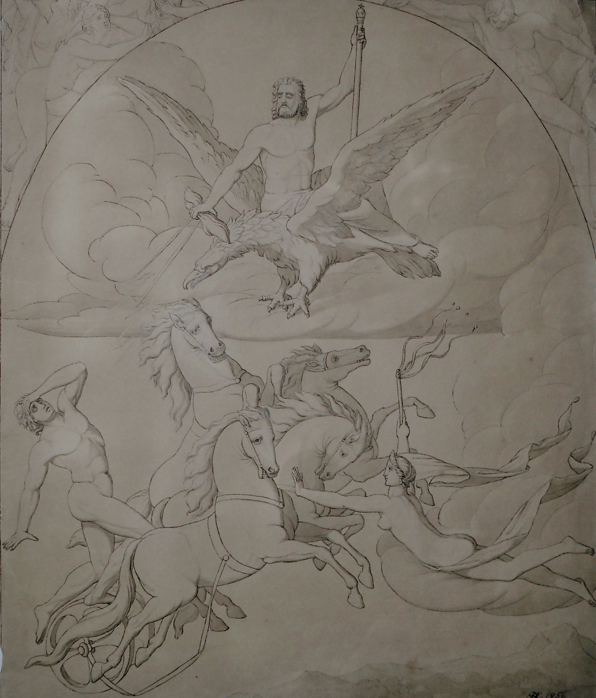 "Fall of Phaeton" by Friedrich Lange (1856)